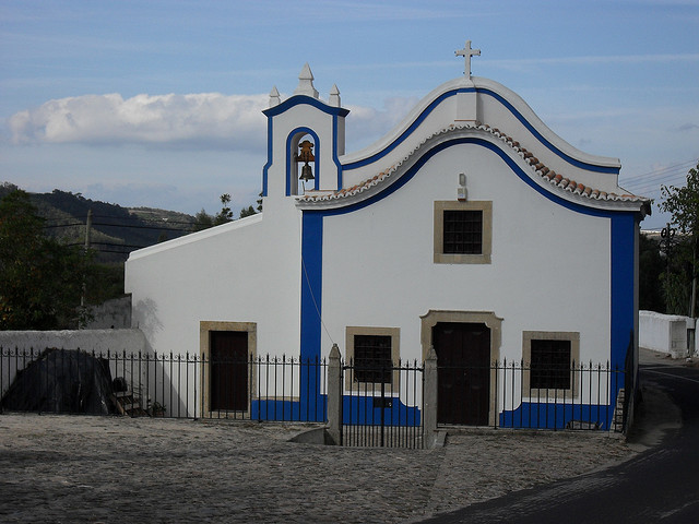 Image of the Chapel of St. Anthony in the town of Picanceira, Mafra municipality, 50 km from Lisbon.